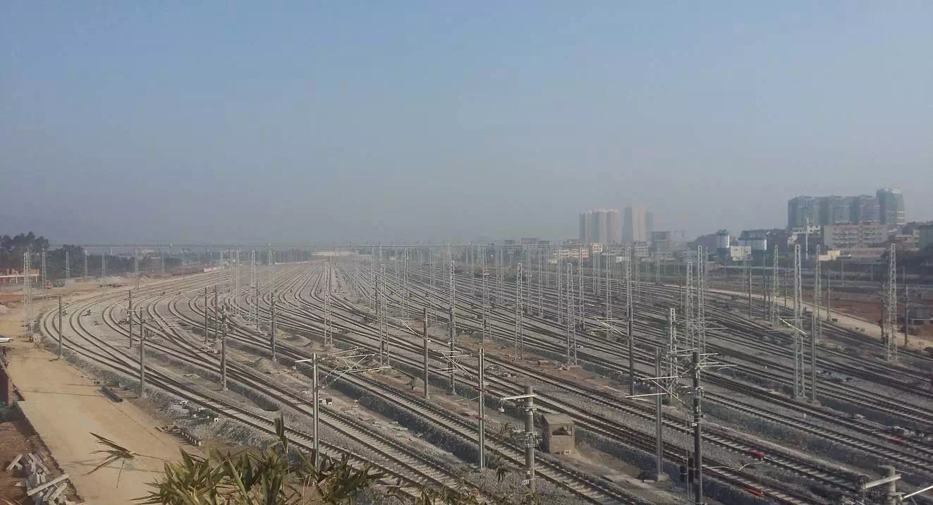 Located in the north of Guilinbei Railway Station, it's the first EMU Maintenance Center (expect capital cities) in China.